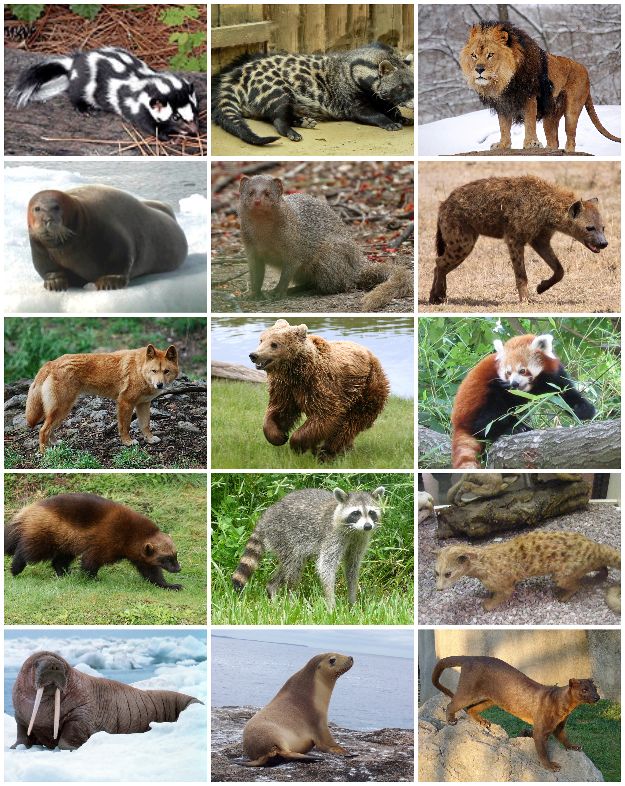 Carnivora Diversity